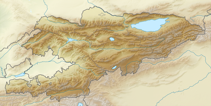 Relief map of Kyrgyzstan Equirectangular projection, N/S stretching 130 %. Geographic limits of the map: N: 43.5° N S: 39.0° N W: 69.0° E E: 80.6° E